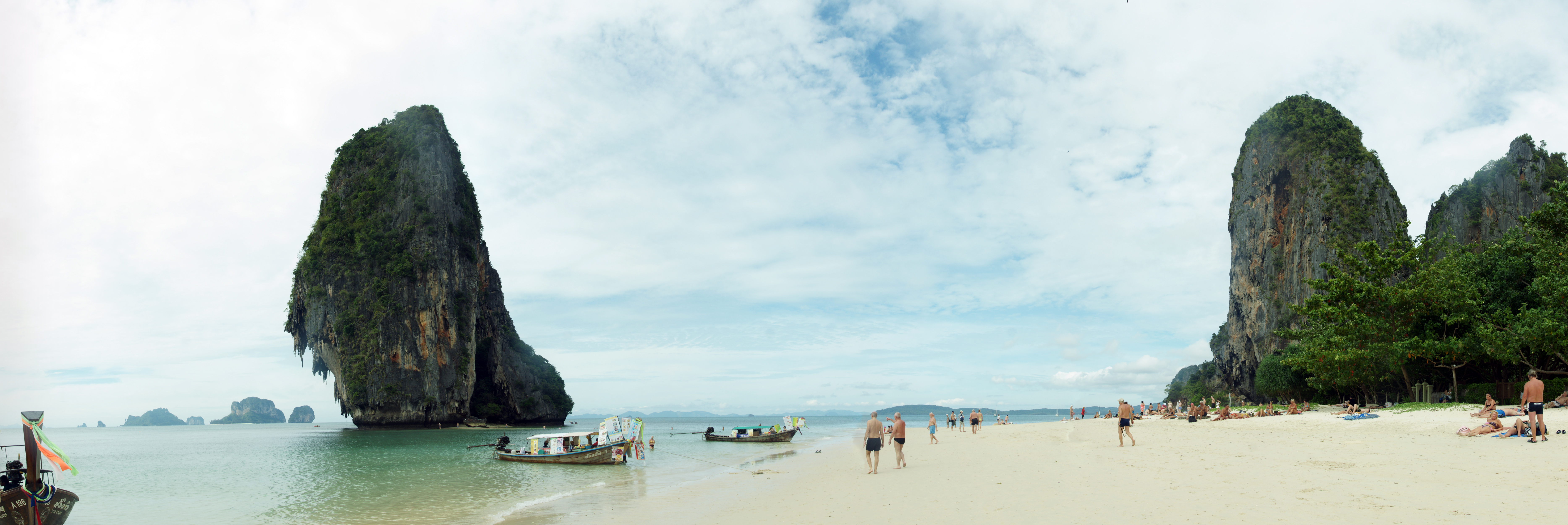 Panorama of Phra Nang beach in Railay Bay, Krabi, Thailand.